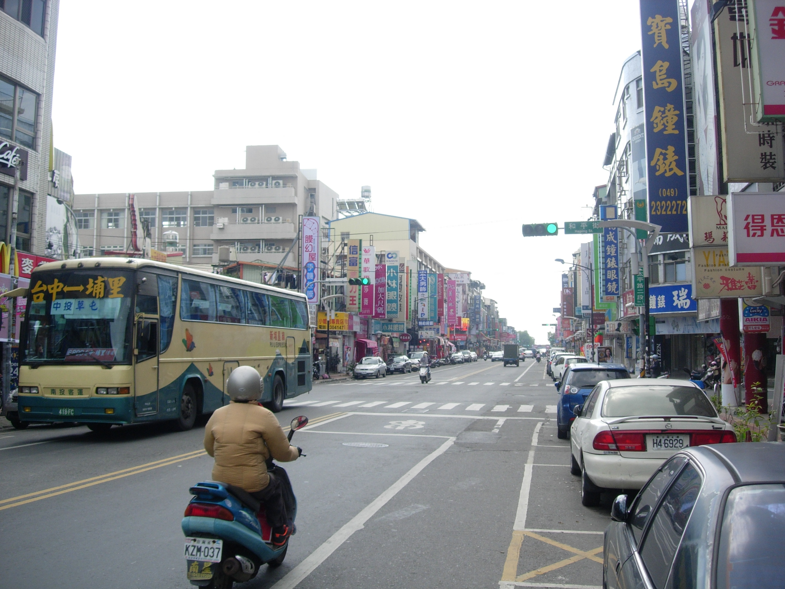 Commercial District Of Tsaotun